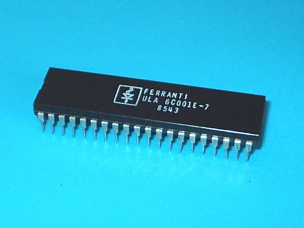 ZX Spectrum chipset